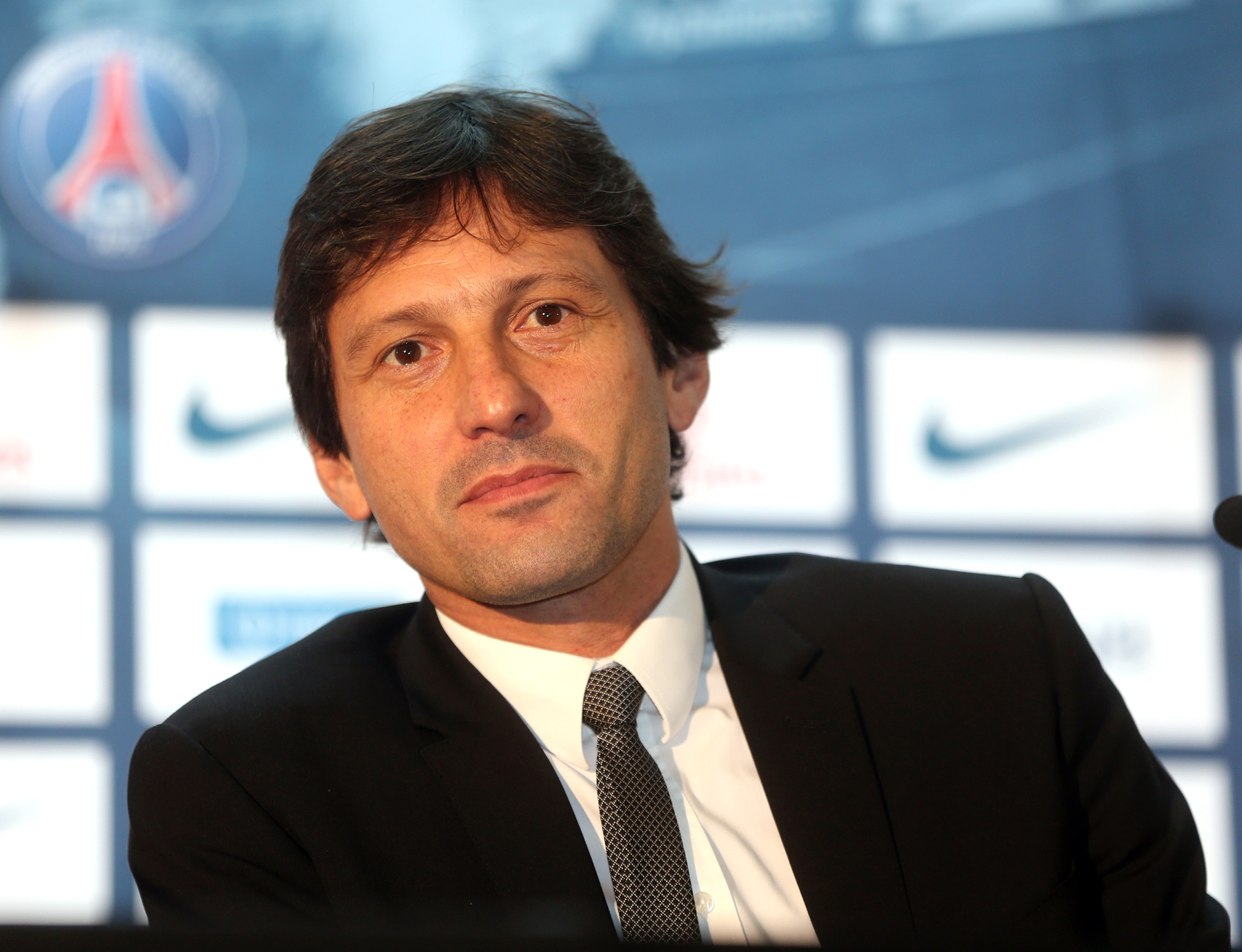 French club Paris Saint-Germain's Brazilian sporting director Leonardo during a Press conference in Doha.